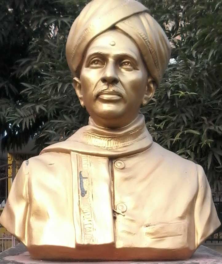 nyapathi subbarao panthulu statue at freedom fighters' park, rajahmundry